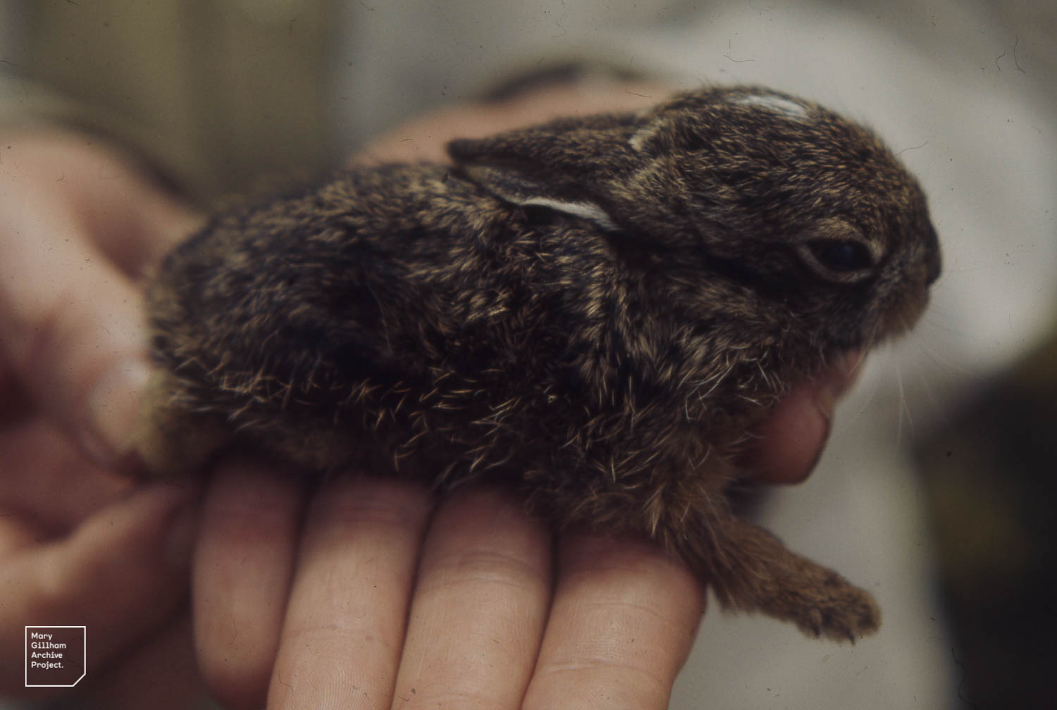 Coastal plain animals